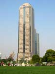 Ohe-Bashi Shanghai Office